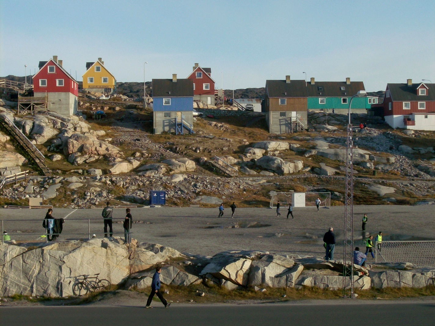 The soccer field in Ilulissat, Greenland.